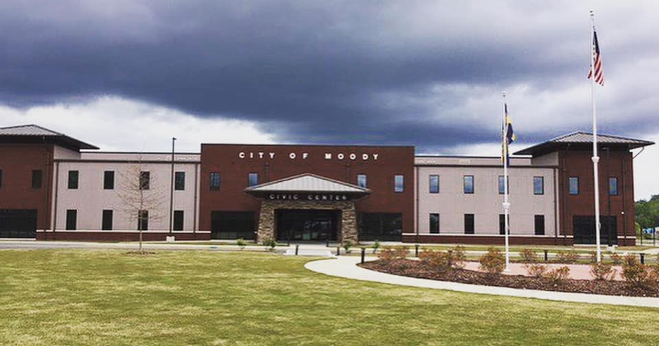 Today’s #thirddistrictthursday features the Moody Civic Center! #AL03